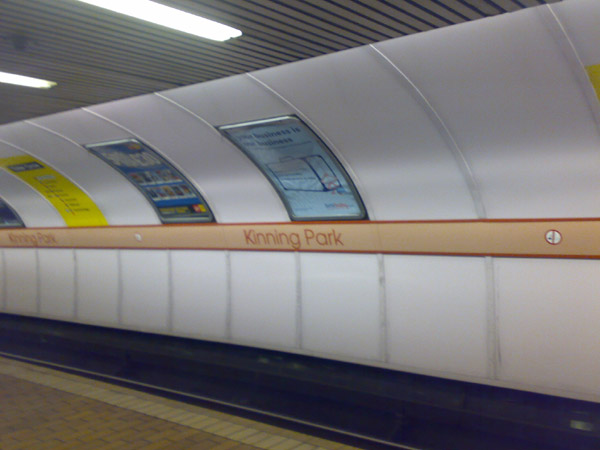 Kinning Park subway station